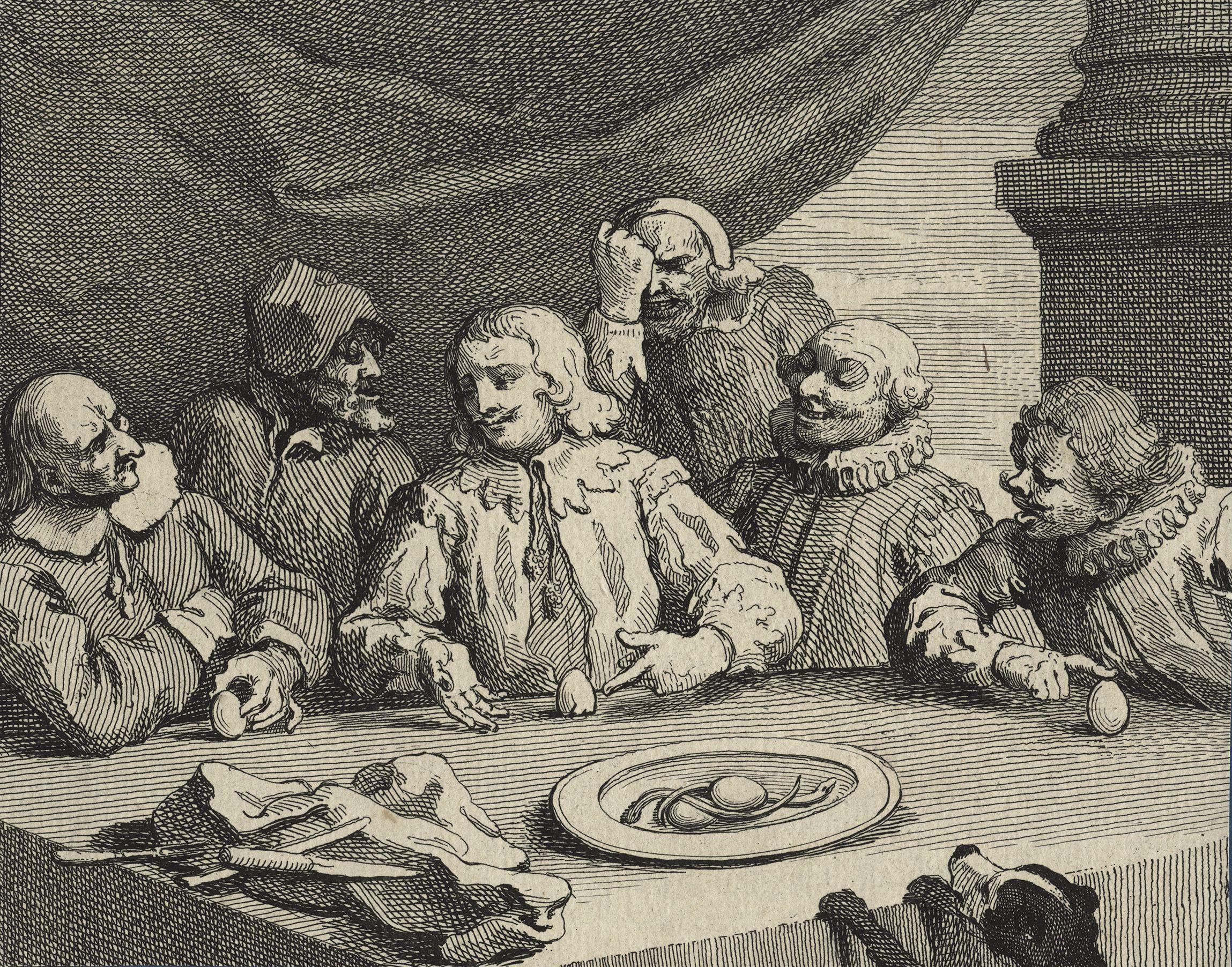 Columbus Breaking the Egg' (Christopher Columbus), by William Hogarth (died 1764). Subscription ticket for Hogarth's Analysis of Beauty. Etching by William Hogarth All images in this batch have been confirmed as author died before 1939 according to the official death date listed by the NPG.